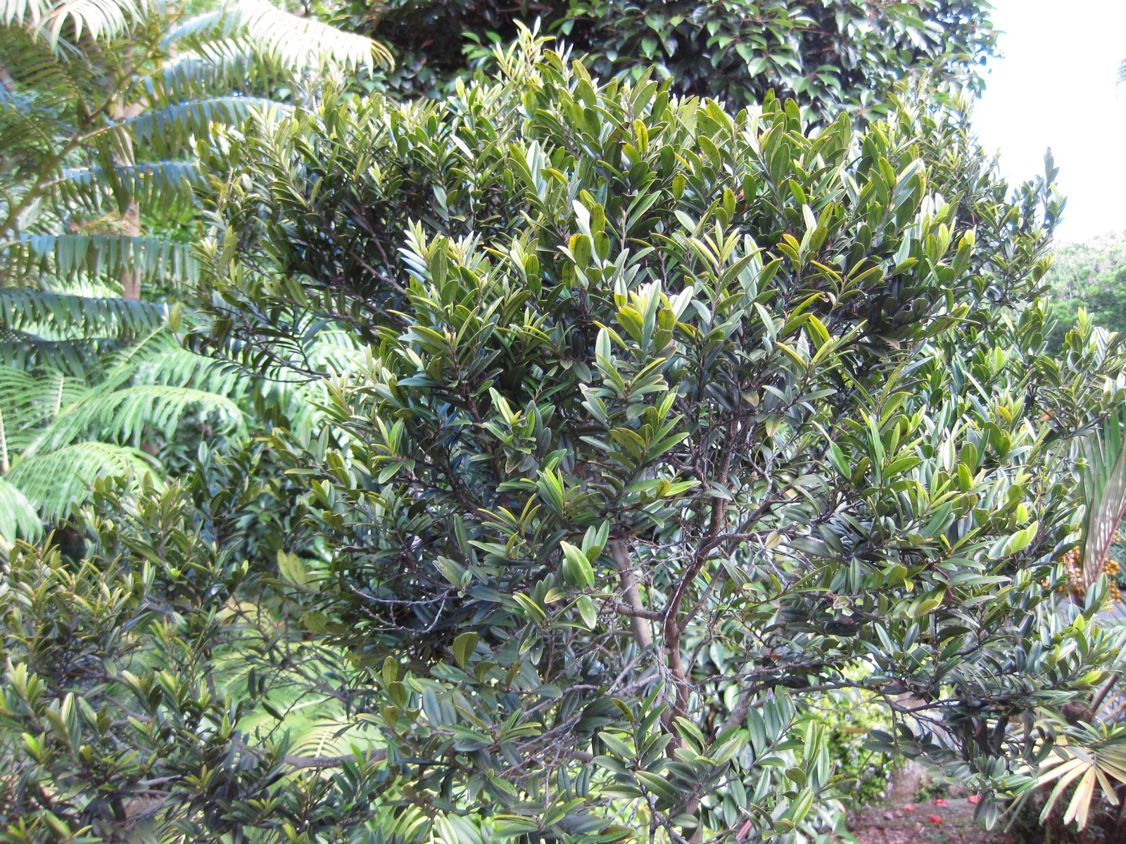 Photographed at the Royal Botanic Gardens Sydney (Australia) in December